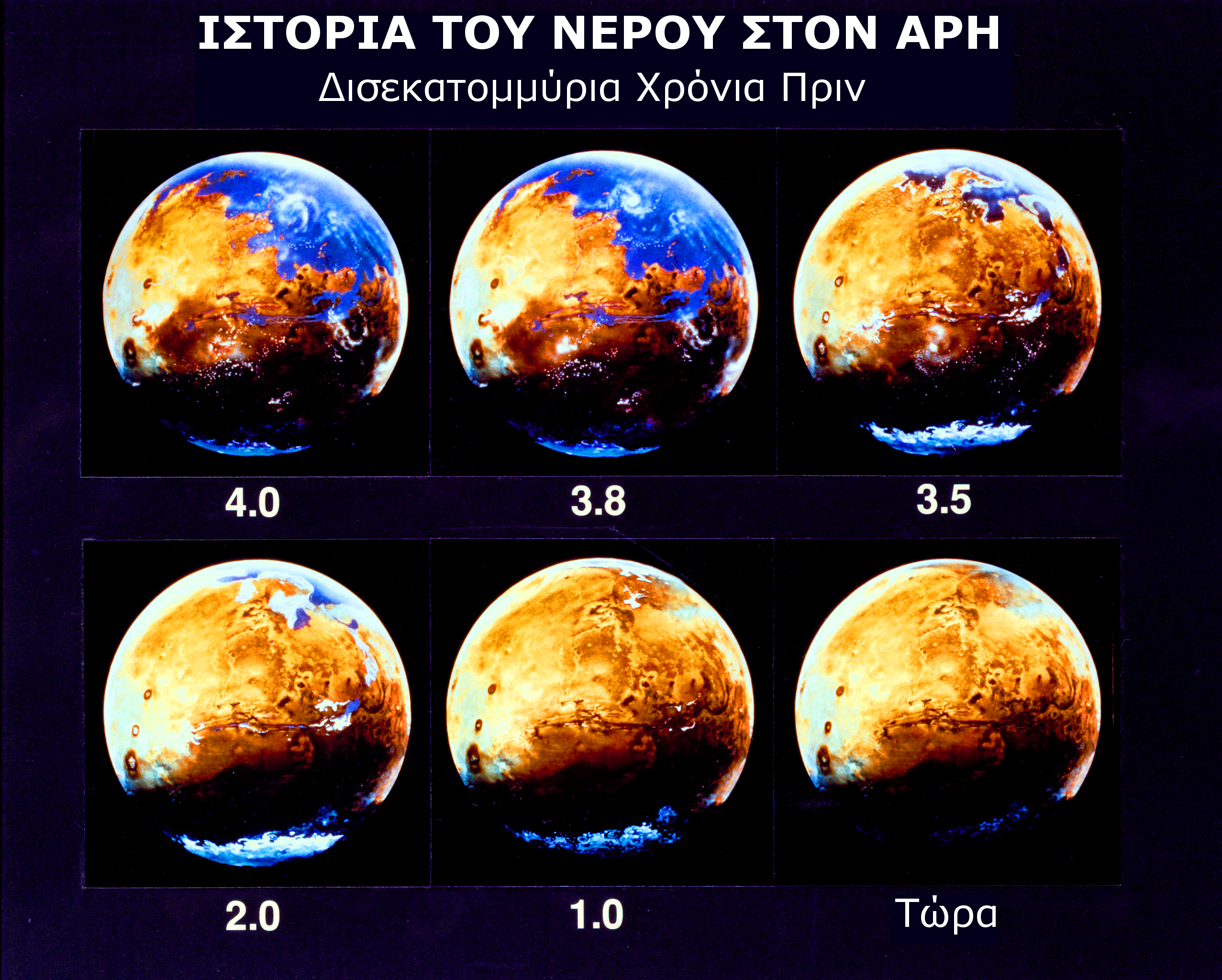 Translation of File:History of Water on Mars.jpg to Greek